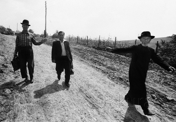 Jaroslav Kučera´s photography Personality rights warningAlthough this work is freely licensed or in the public domain, the person(s) shown may have rights that legally restrict certain re-uses unless those depicted consent to such uses. In these cases, a model release or other evidence of consent could protect you from infringement claims.